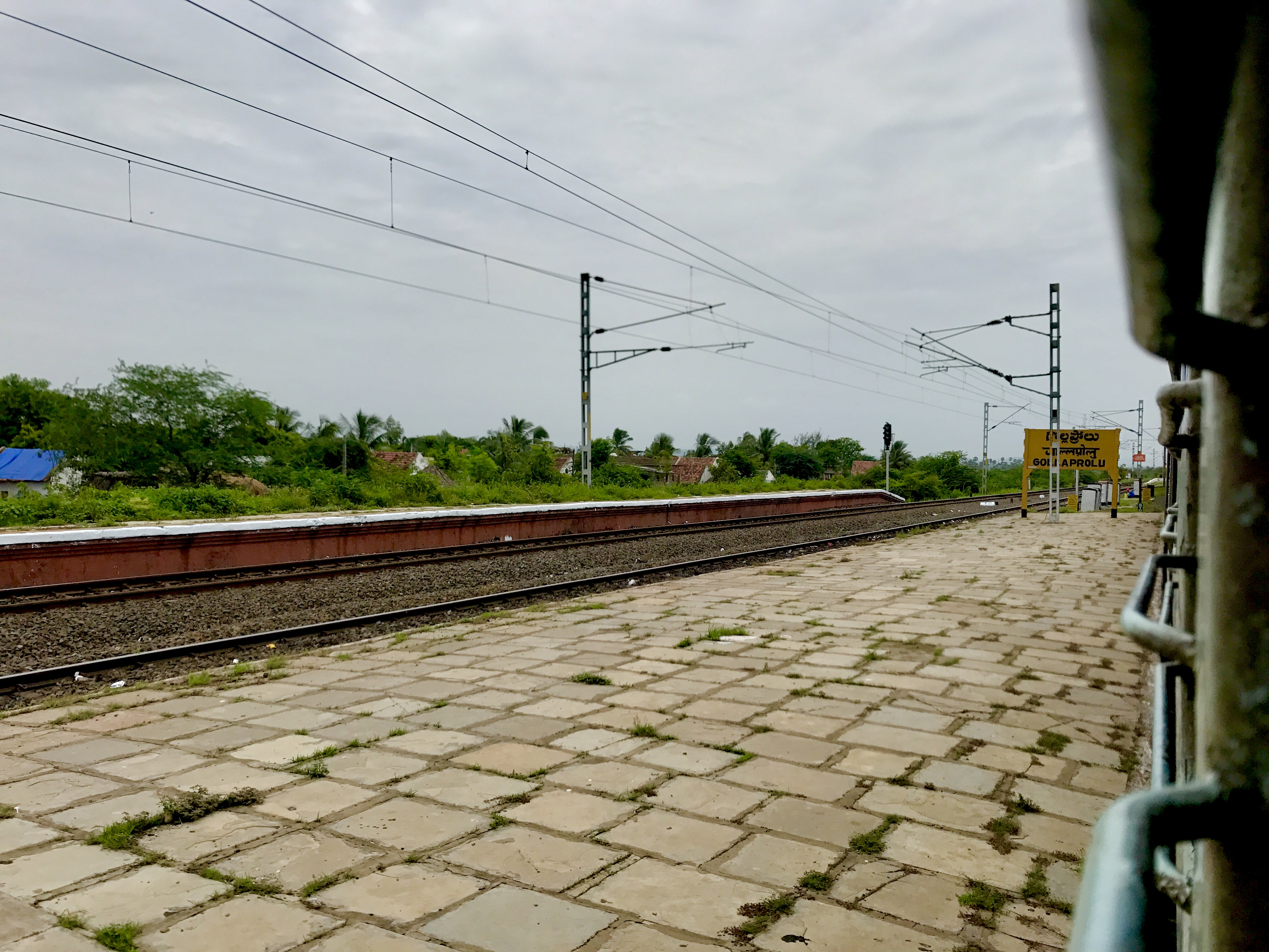 Gollaprolu railway station board